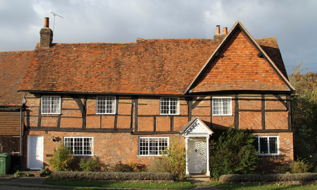 Turnpike House, London Road, Blewbury, Oxfordshire (formerly Berkshire), seen from south-southeast